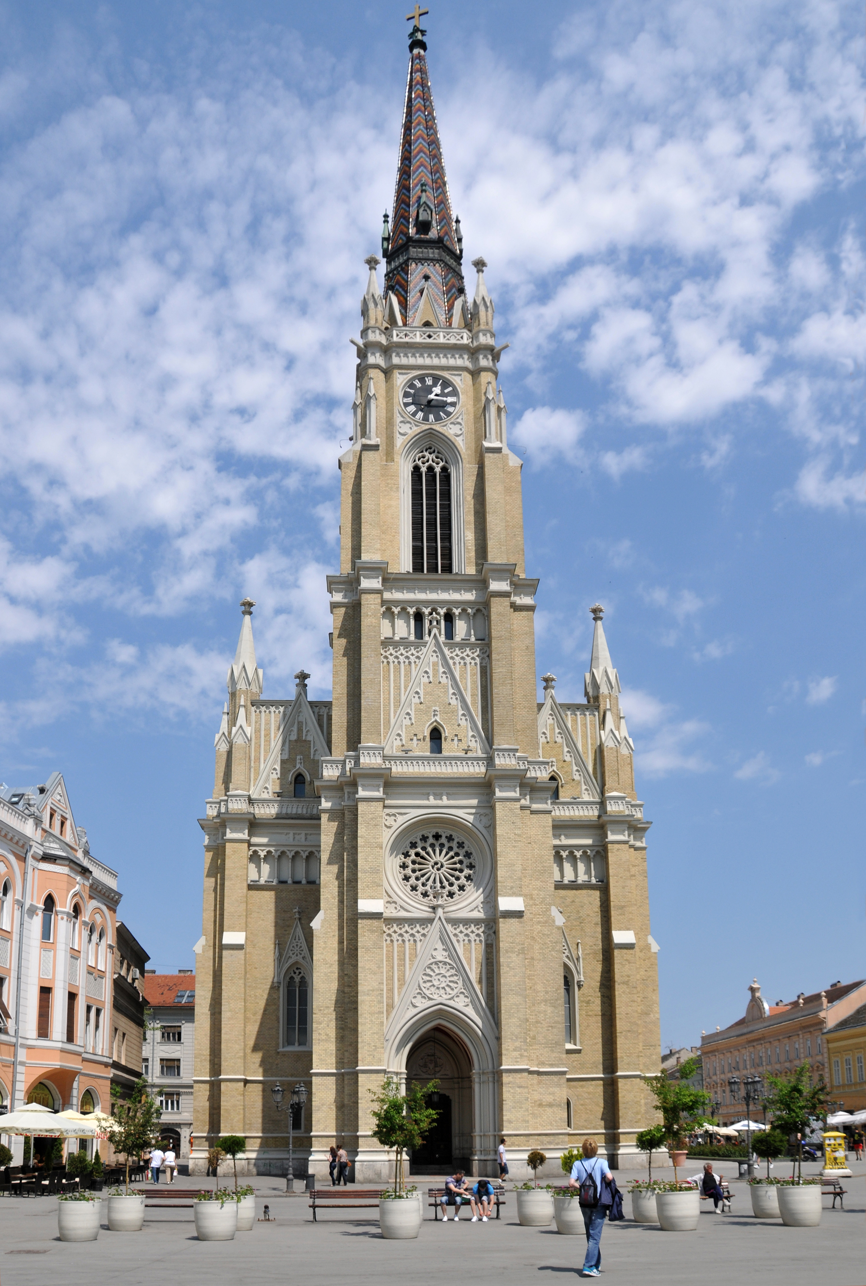 PLEASE, no multi invitations, glitters or self promotion in your comments, THEY WILL BE DELETED. My photos are FREE for anyone to use, just give me credit and it would be nice if you let me know, thanks - NONE OF MY PICTURES ARE HDR. The Name of Mary Parish Church - The Cathedral, built in 1895 in the neo-gothic style on the foundation of an old Roman Catholic church.